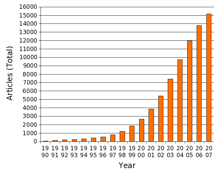 Running total of the number of research papers listed on PubMed from 1990-2007 containing the word "phytotherapy."